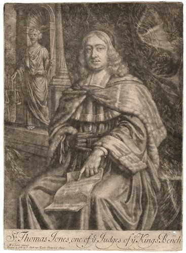 Sir Thomas Jones (1614-1692)